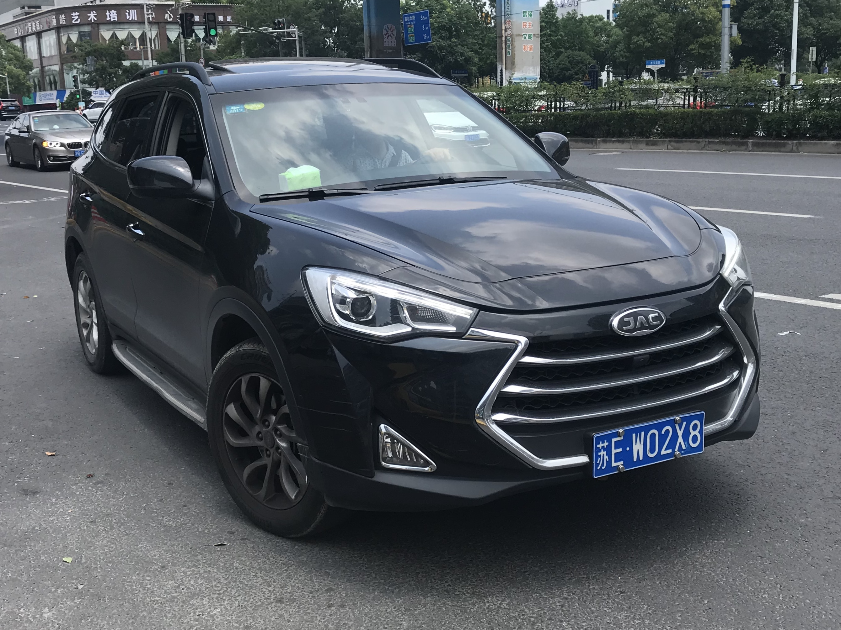 JAC Refine S7 front